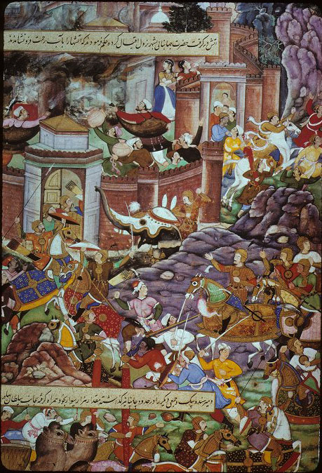 An illustrated folio of the Akbarnamah depicting the 16th century Mughal siege of Champaner in Gujarat. The two camels are probably the twin-humped Bactrian breed and are carrying naggada beaters